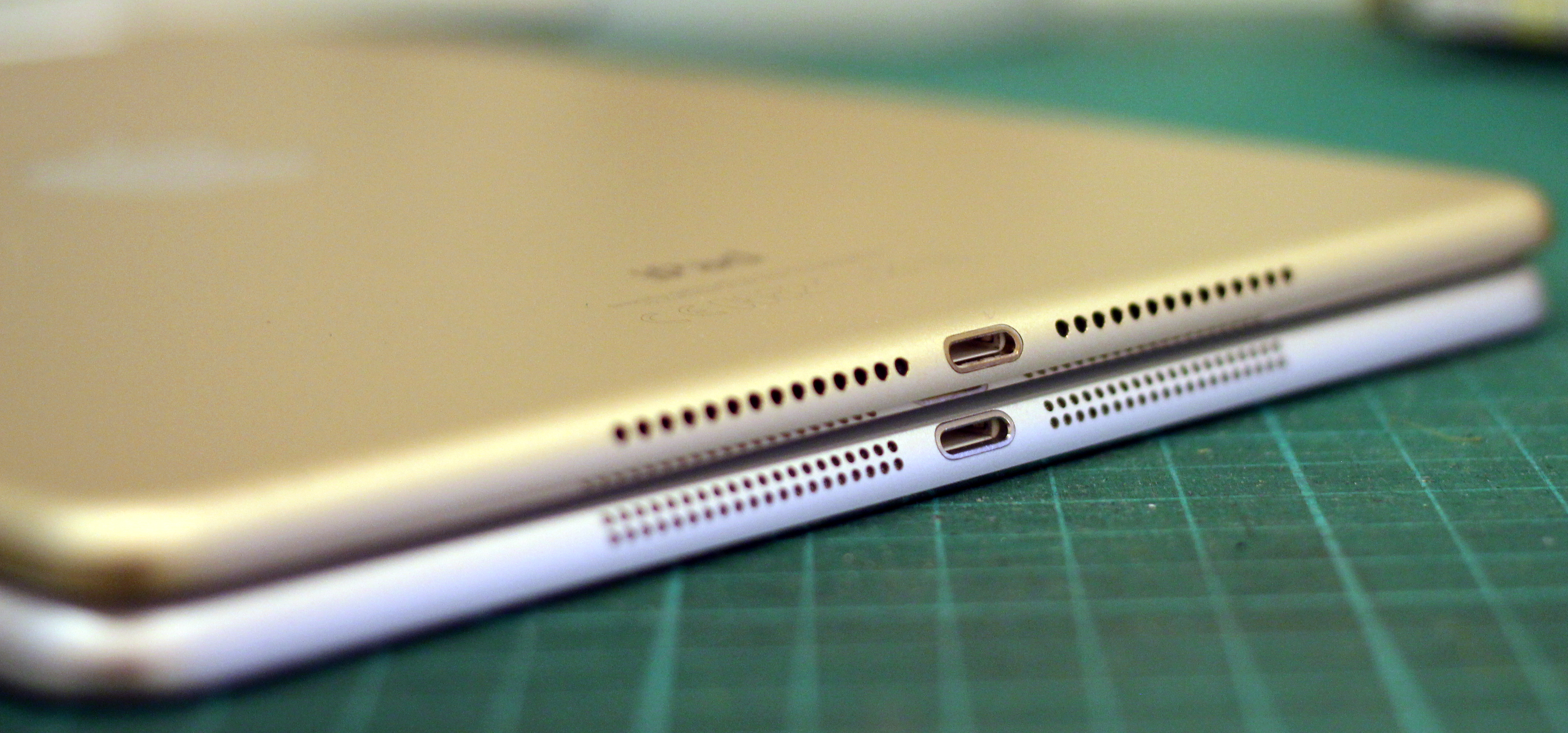 iPad air 2 speaker and lightning connector